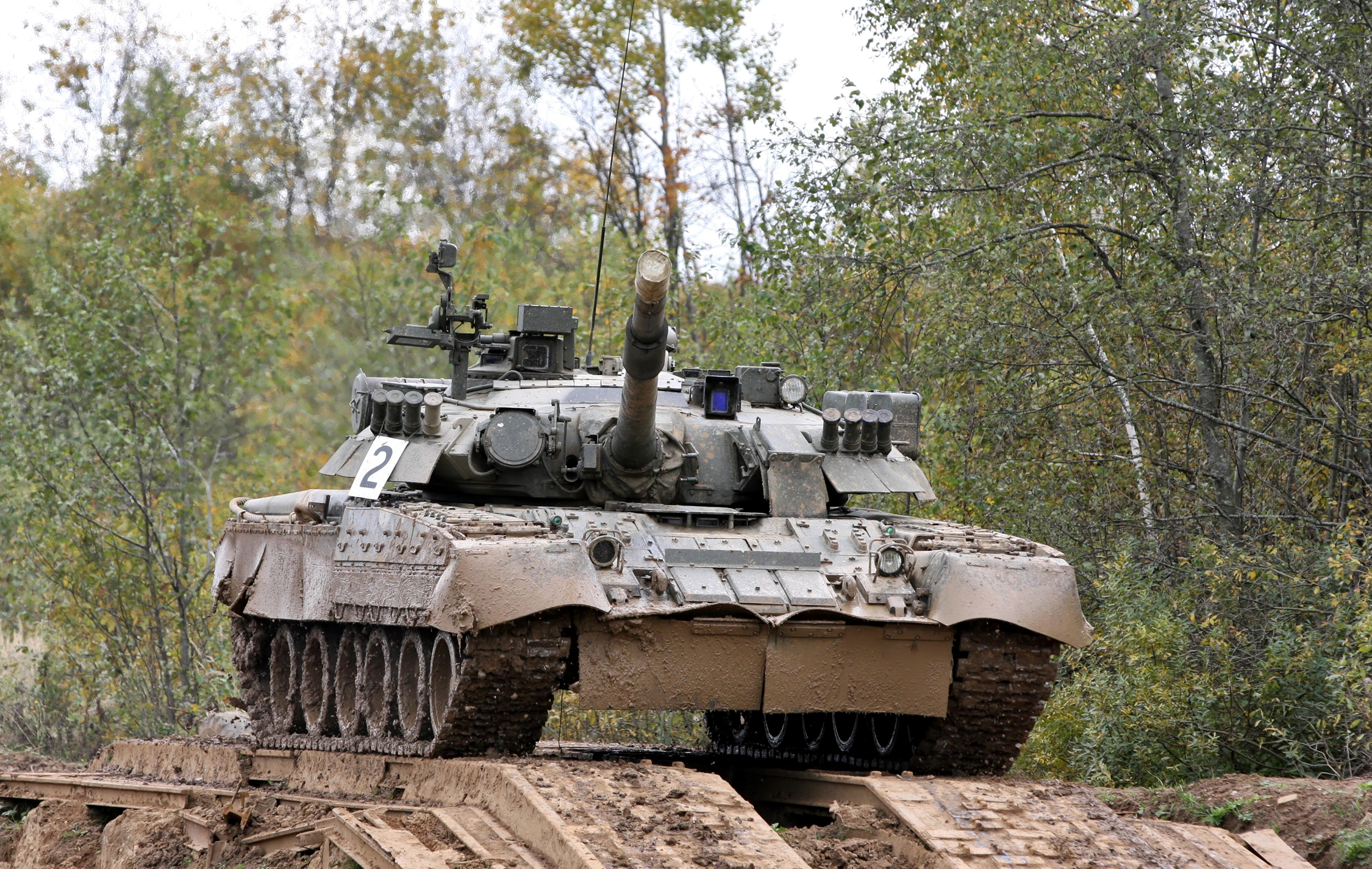 Russian T-80U of the 4th Tank Brigade.